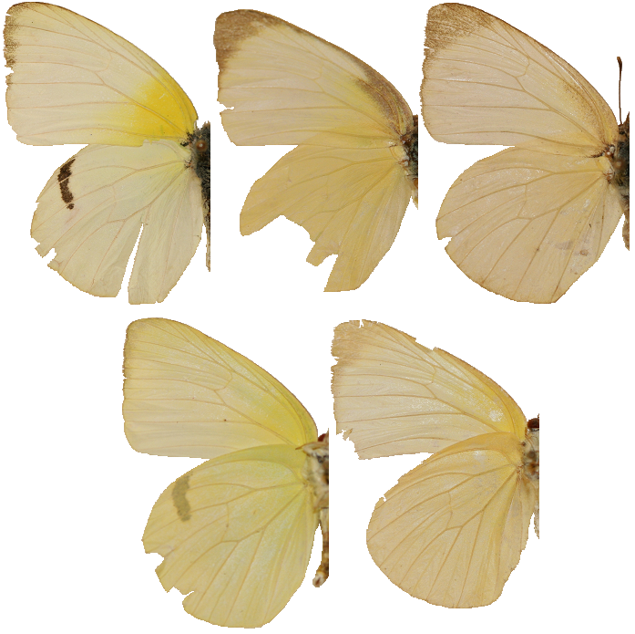 Lyside Sulphur (Kricogonia lyside) adult variation. The first row shows the variation of the upper side of the wings and the second row shows the variation of the underside of the wings.